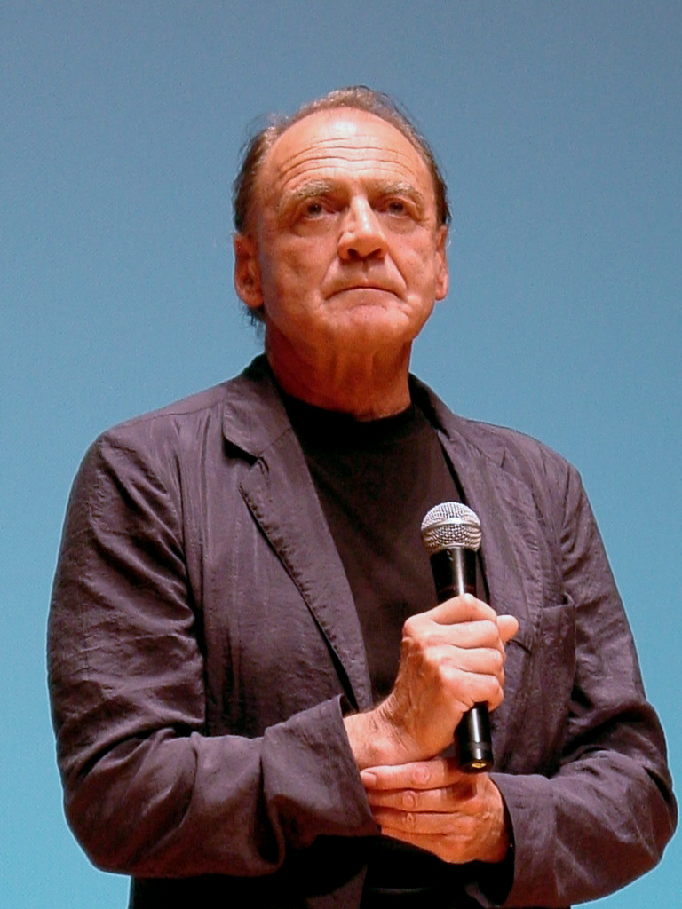 Swiss actor Bruno Ganz at the German Film Festival in Tokyo, June 2005